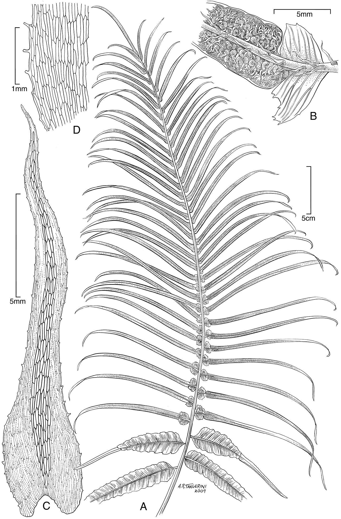 Blechnum pacificum Lorence & A. R. Sm. A fertile frond, blade B, fertile frond, pinna base showing expanded sterile portion C scale from base of stipe D part of scale from base of stipe, detail of cells. Drawn from the type collection (Dunn & Lorence 481).